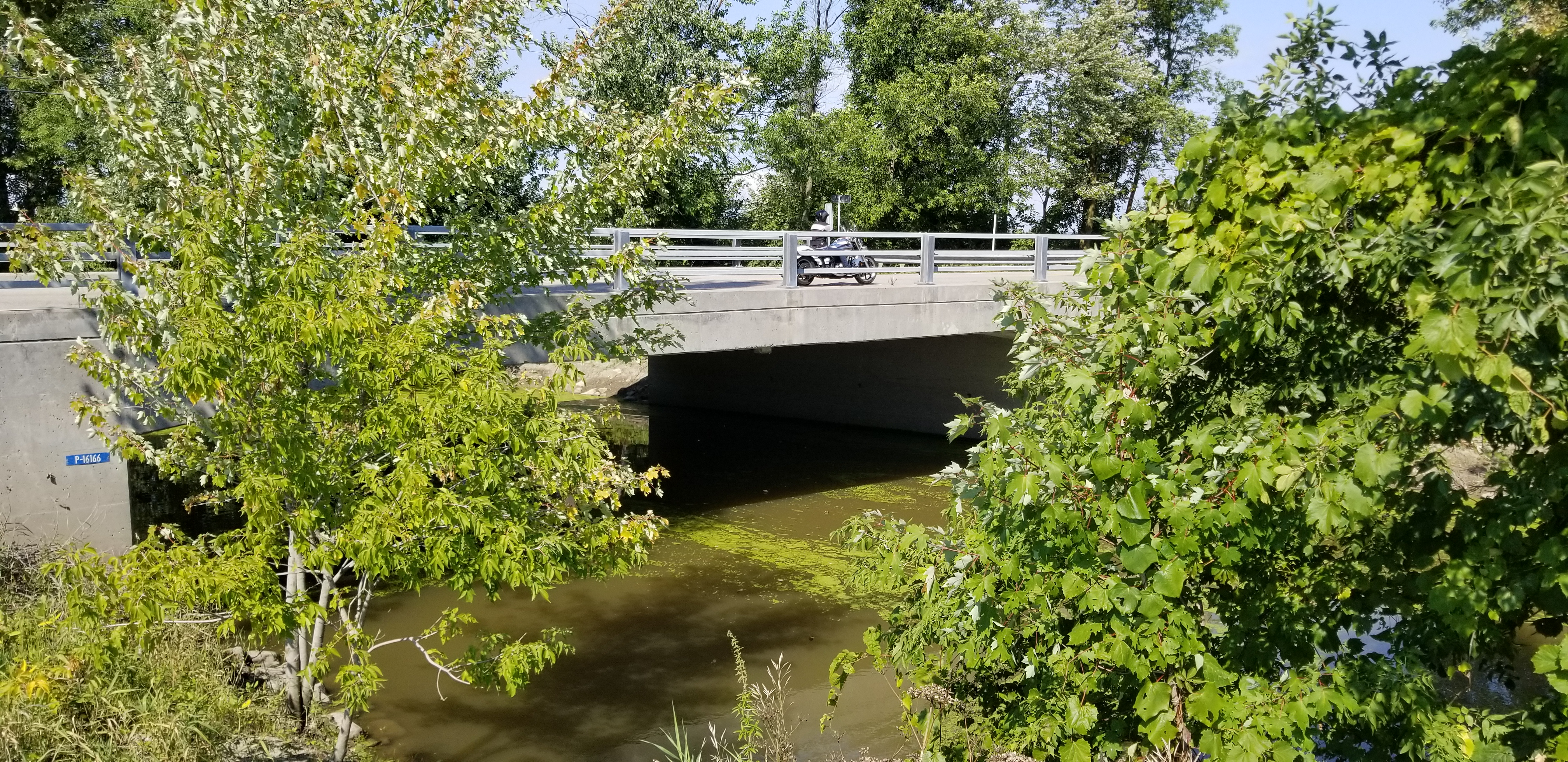 Highway 138 bridge spanning the Chicot River at Saint-Ignace-de-Loyola on September 15, 2018.